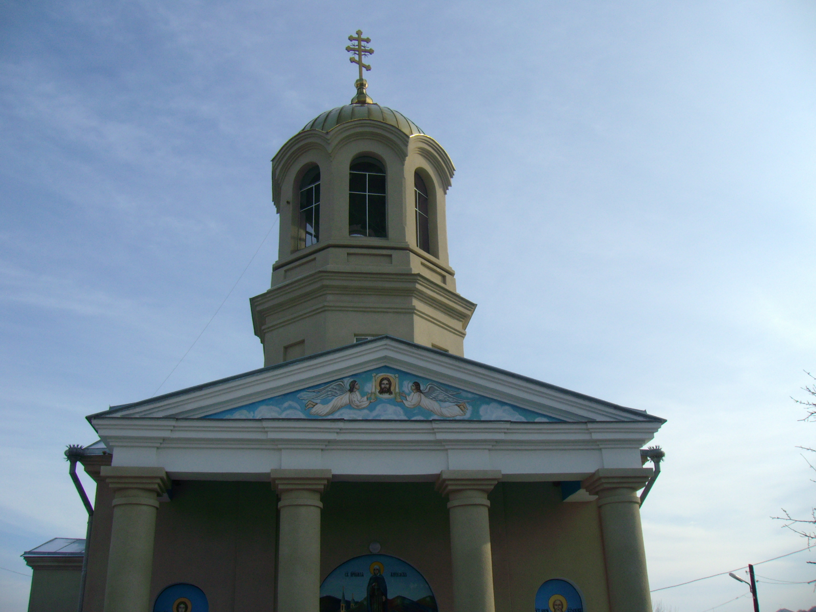 Tvardica